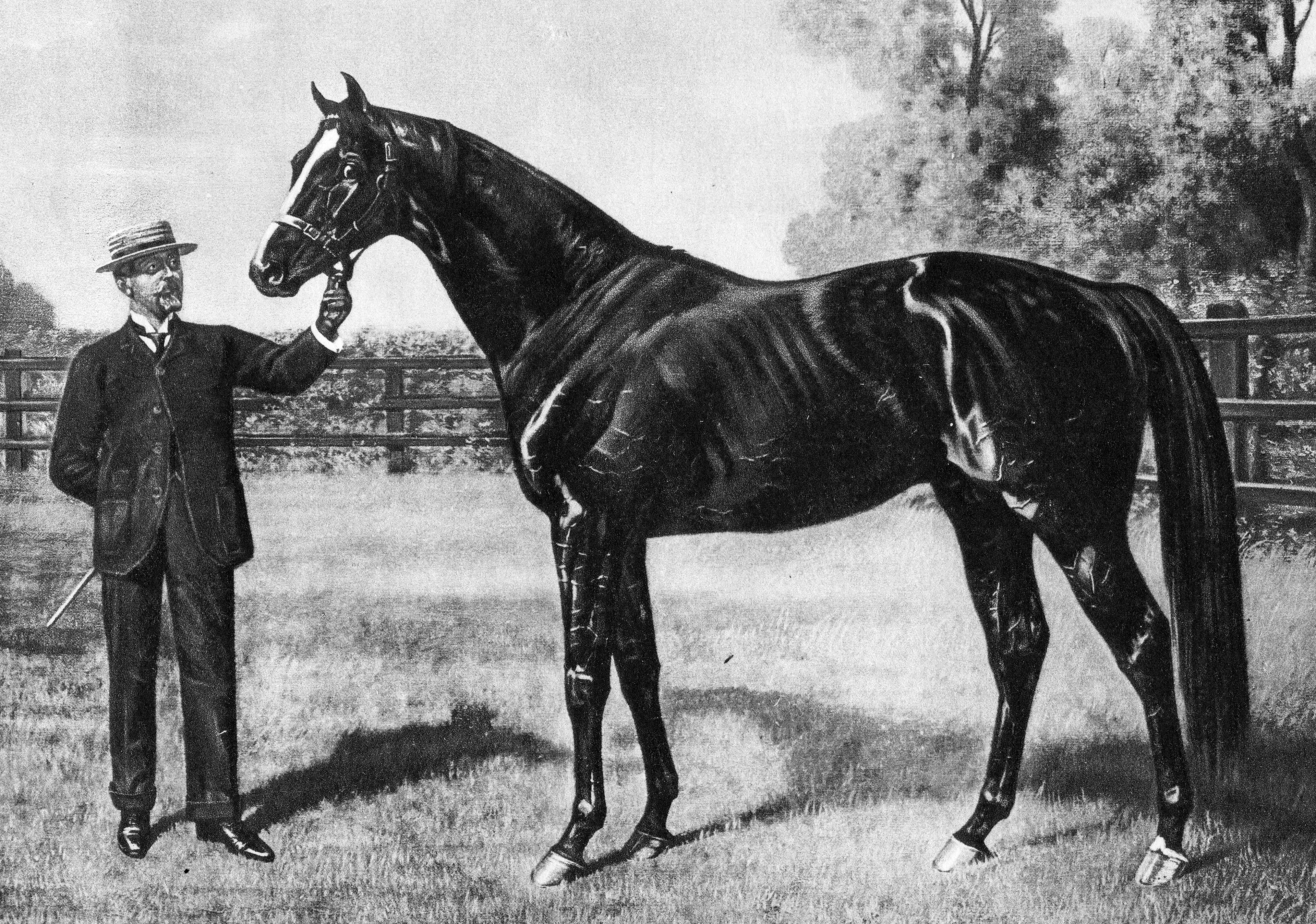 Edmond Blanc et son étalon vedette, Flying Fox (vers 1900)